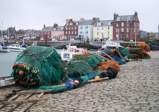 Arbroath Harbour - the row of houses for the street "The Shore" and each are individually listed buildings (all at Category B). St. Thomas of Canterbury Roman Catholic Church can be seen in its vantage position overlooking the entrance to the harbour in the distance, this is also a Category B listed building.